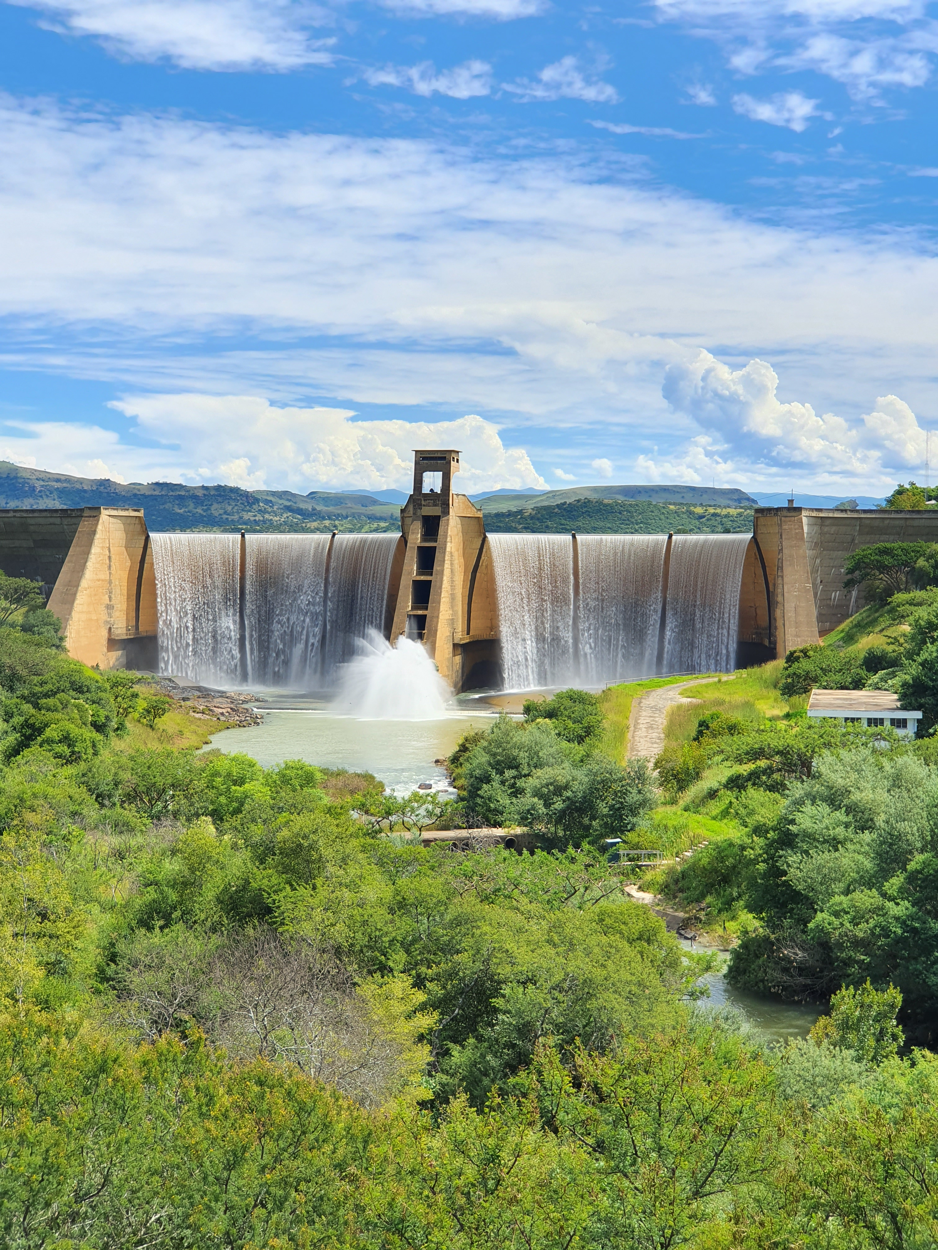 Such A Great Union Of Nature Captured by Vidya Gupta. This is an image with the theme "Africa on the Move or Transport" from: South Africa